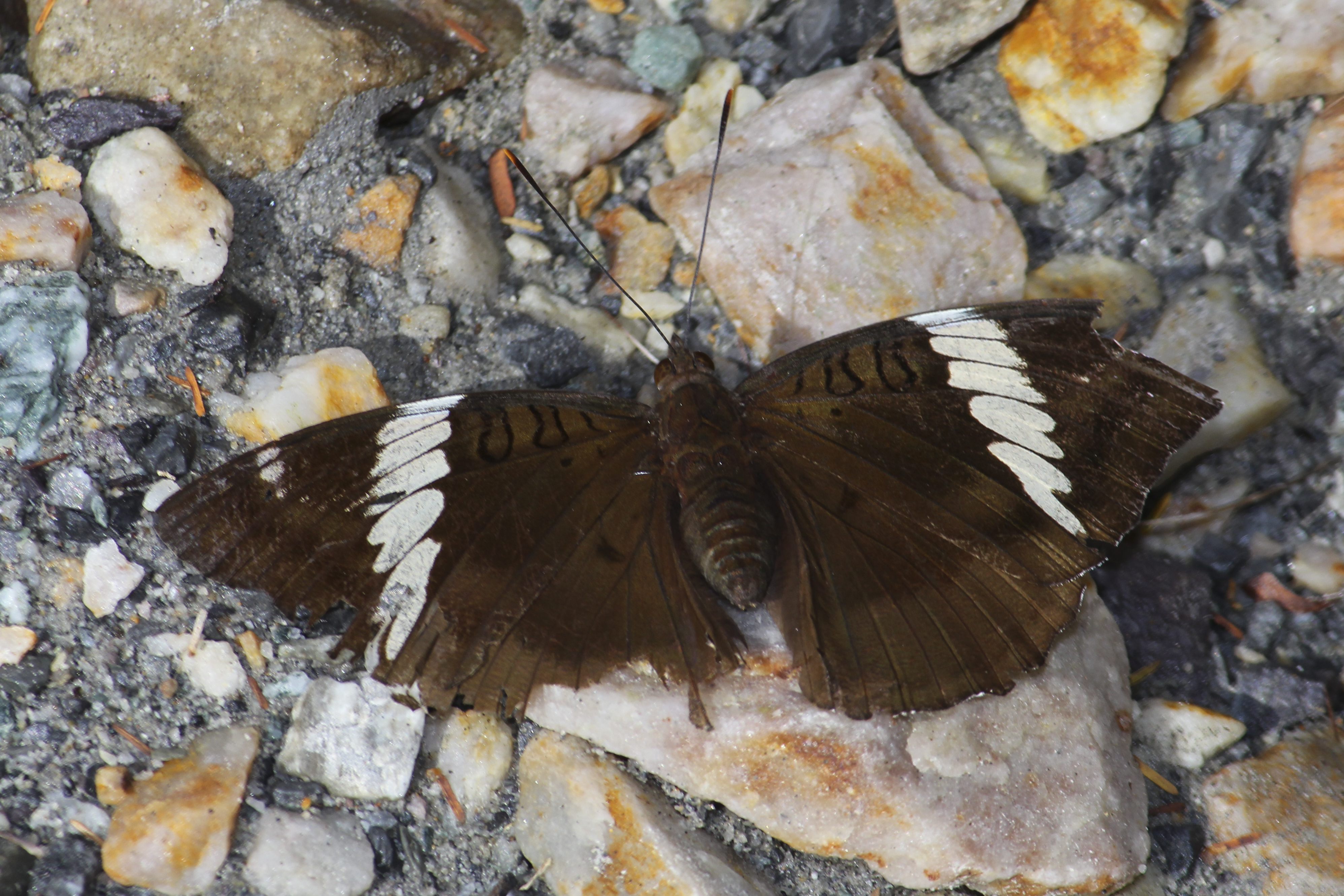 Open wing position of Female Euthalia phemius Doubleday, 1848 – White-edged Blue Baron. Subspecies: Euthalia phemius phemius Doubleday, 1848 – Sylhet White-edged Blue Baron